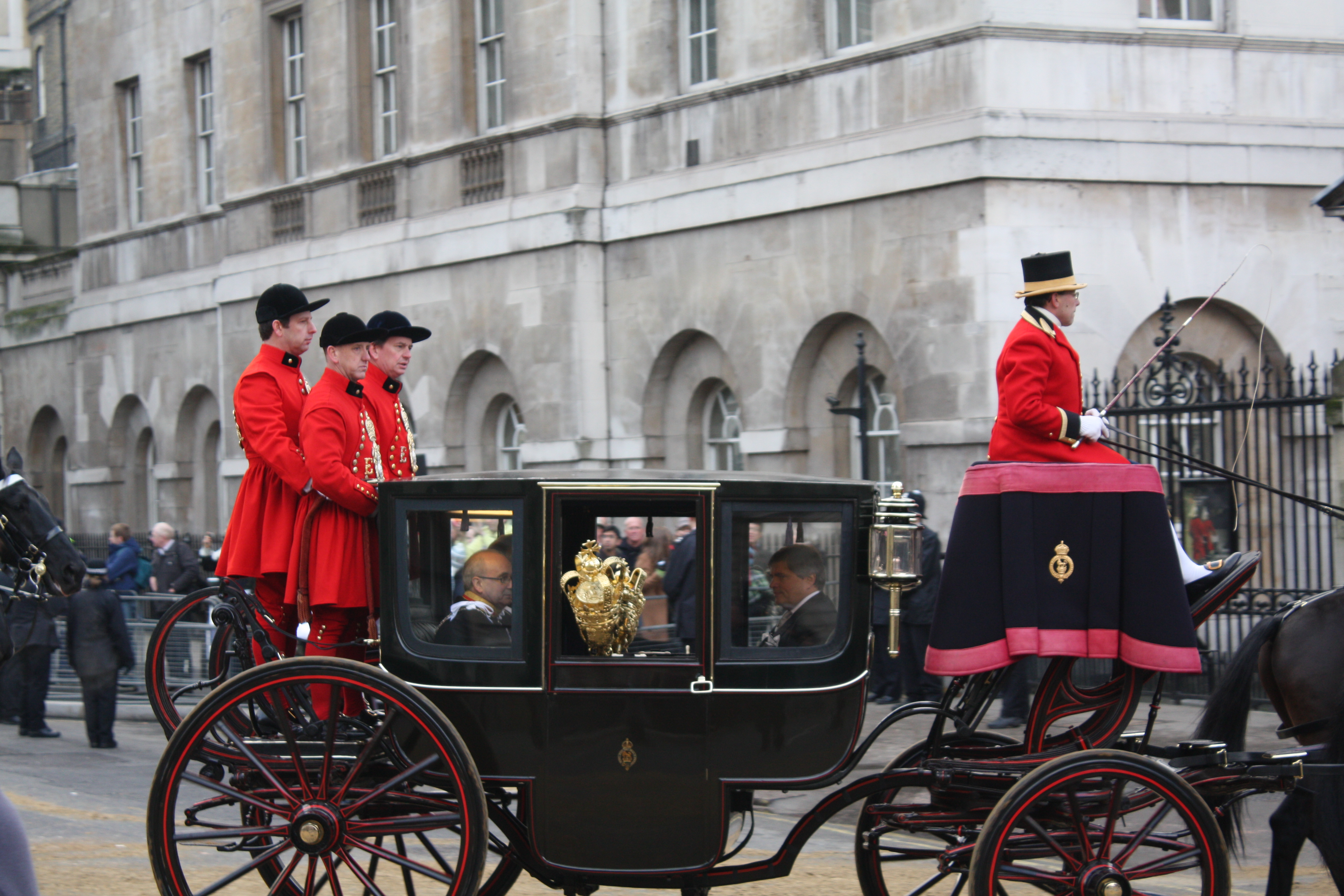 Royal Procession along Whitehall from the Houses of Parliament back to Buckingham Palace, 3rd December 2008